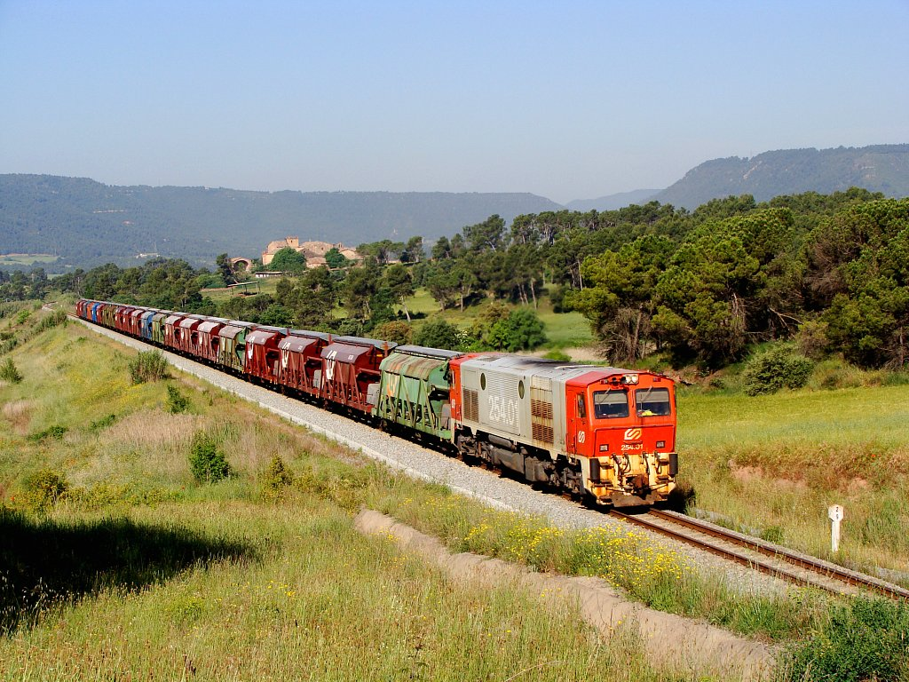 Diesel electric freight locomotive FGC 254.